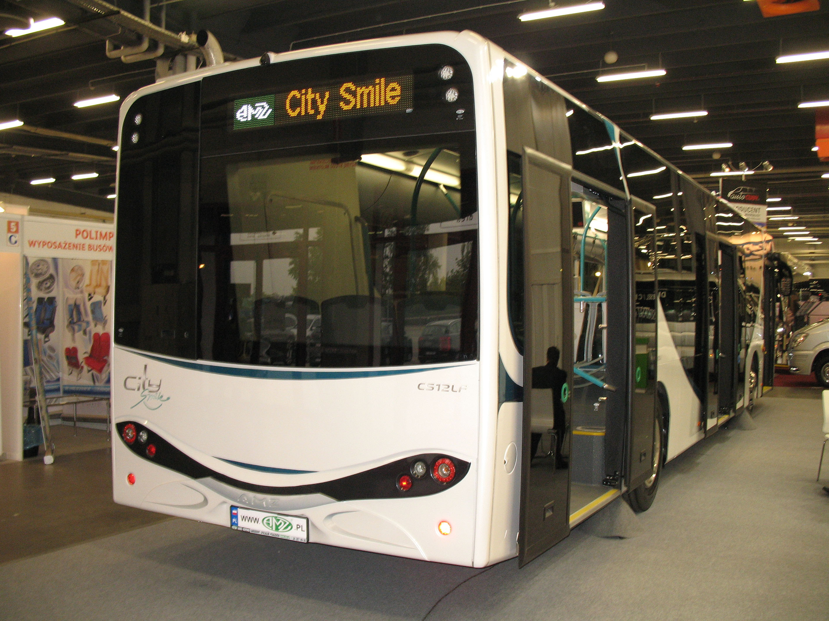 AMZ City Smile CS12LF bus prototype in Kielce, Poland. Built 2011. Transexpo 2011.